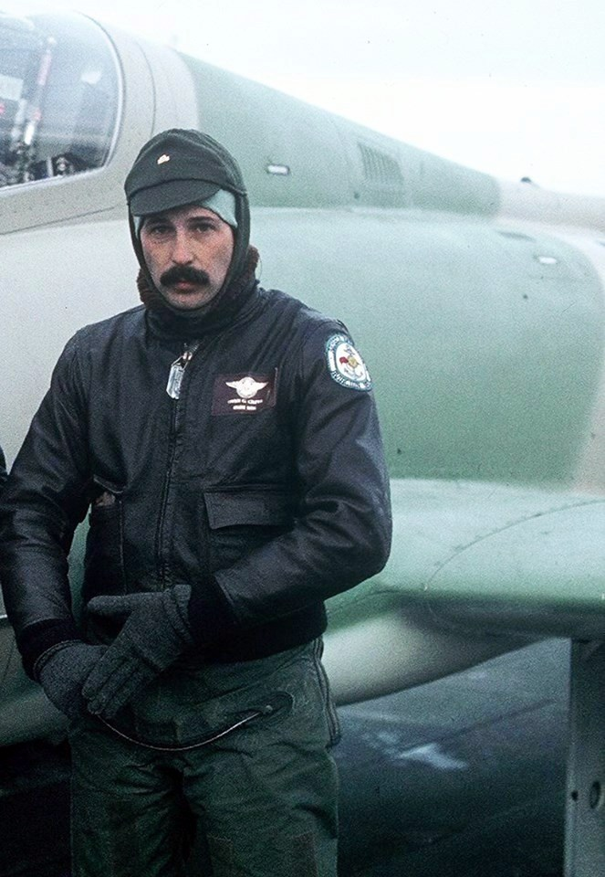 Ship-of-the-Line Lieutenant Owen Crippa. During the Battle of San Carlos of the Falklands War, he faced the entire british fleet alone, and attacked HMS Argonaut on his own, although his plane only possessed light armament